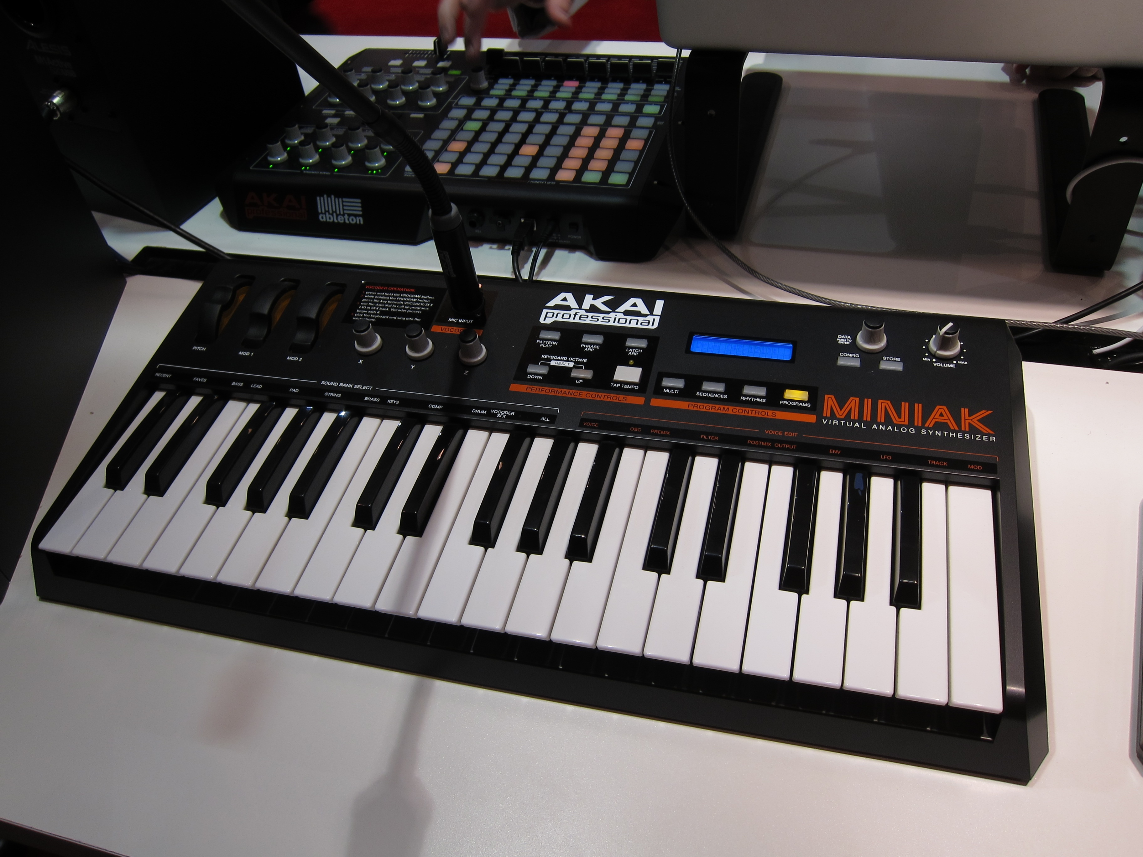 Akai MINIAK Virtual Analogue Synthesizer with Vocoder Pics of stuff from the Summer NAMM show 2010 in Nashville Tennessee. I will add more info on what's in the pics as time allows.